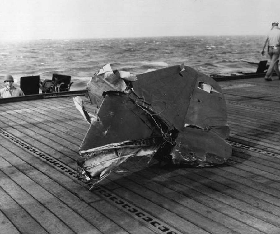 Remains of Yokosuka D4Y "Suisei" aircraft tail section (starboard elevator unit) aboard USS Kitkun Bay (CVE 71) after Kamikaze attack. The Judy made a run on the ship approaching from dead astern, it was met by effective fire and the plane passed over the island and exploded. Parts of the plane and the pilot were scattered over the flight deck and the forecastle.